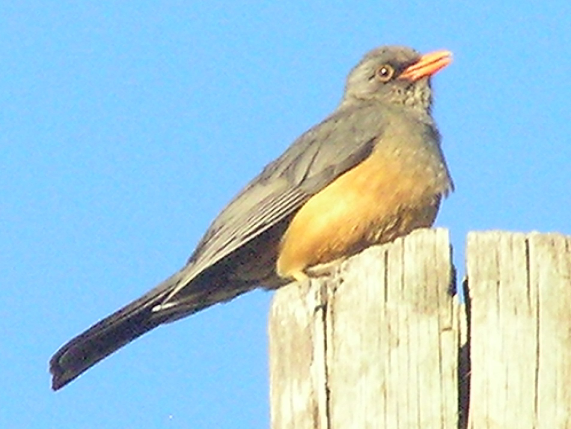 African mountain thrush in Debre Berhan, Ethiopia